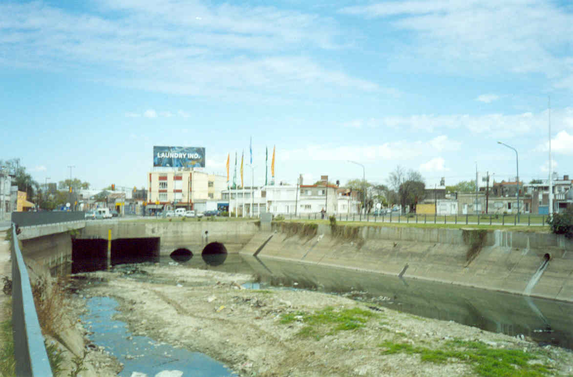 The last part of the course of the Ludueña Stream, a small river of the province of Santa Fe, Argentina, just before emptying into the Paraná River in the city of Rosario. The stream is canalized and considerably polluted at this point. I, Pablo D. Flores, took this picture myself in September 2005.